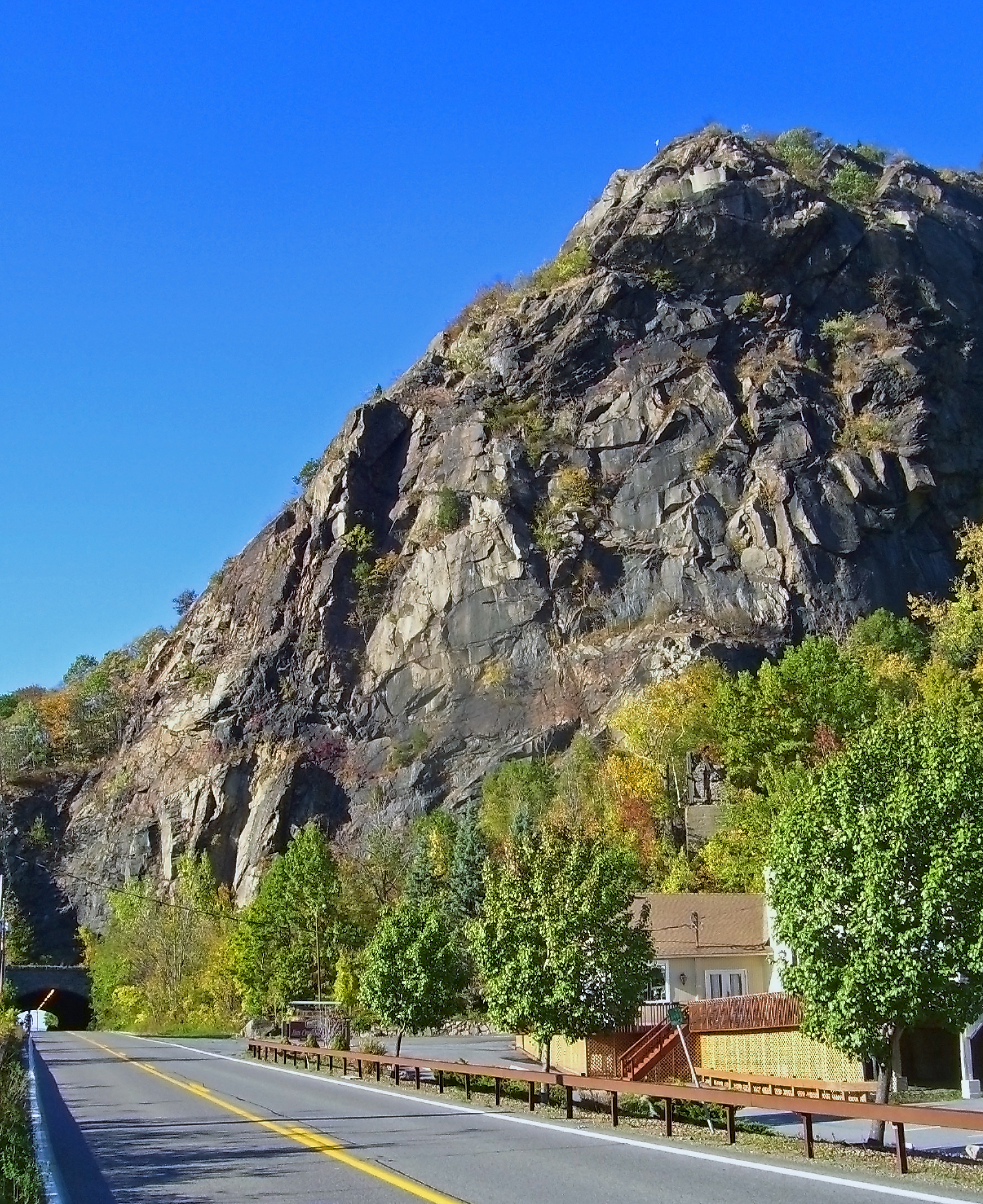 Looking north along NY 9D at Breakneck Ridge